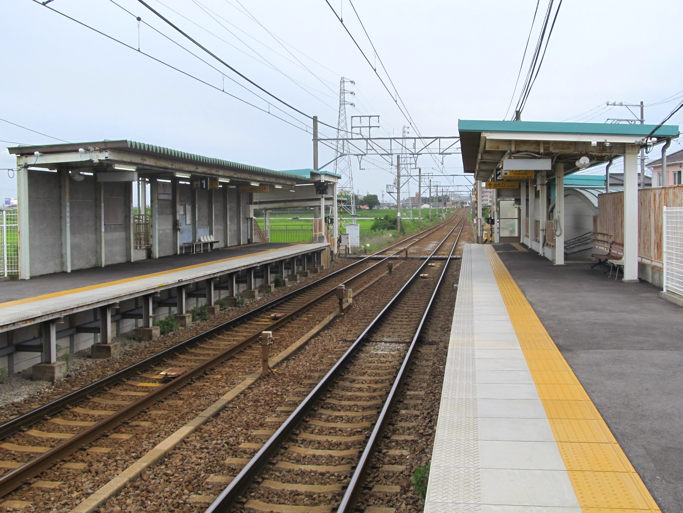 Nagoya Railroad Kowa Line Uedai Station Platform